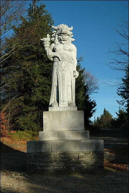 New granite sculpture of Radegast